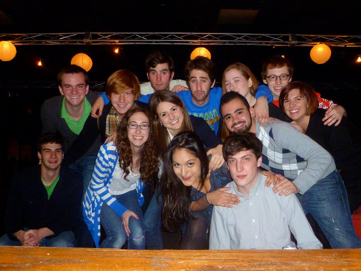 A photograph of the board of Production Workshop, a student-run theatre at Brown University.